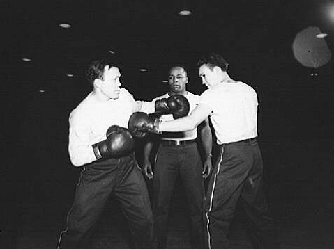 Manhattan Beach Coast Guard training station. Lou Ambers (on the right), former world's lightweight champion, sparring with Marty Servo (on the left), well-known pro, as Eristus Sams, former Tuskegee football and track star, referees. All three are boxing instructors at the Manhattan Beach Coast Guard training station (original text from the Library of Congress)